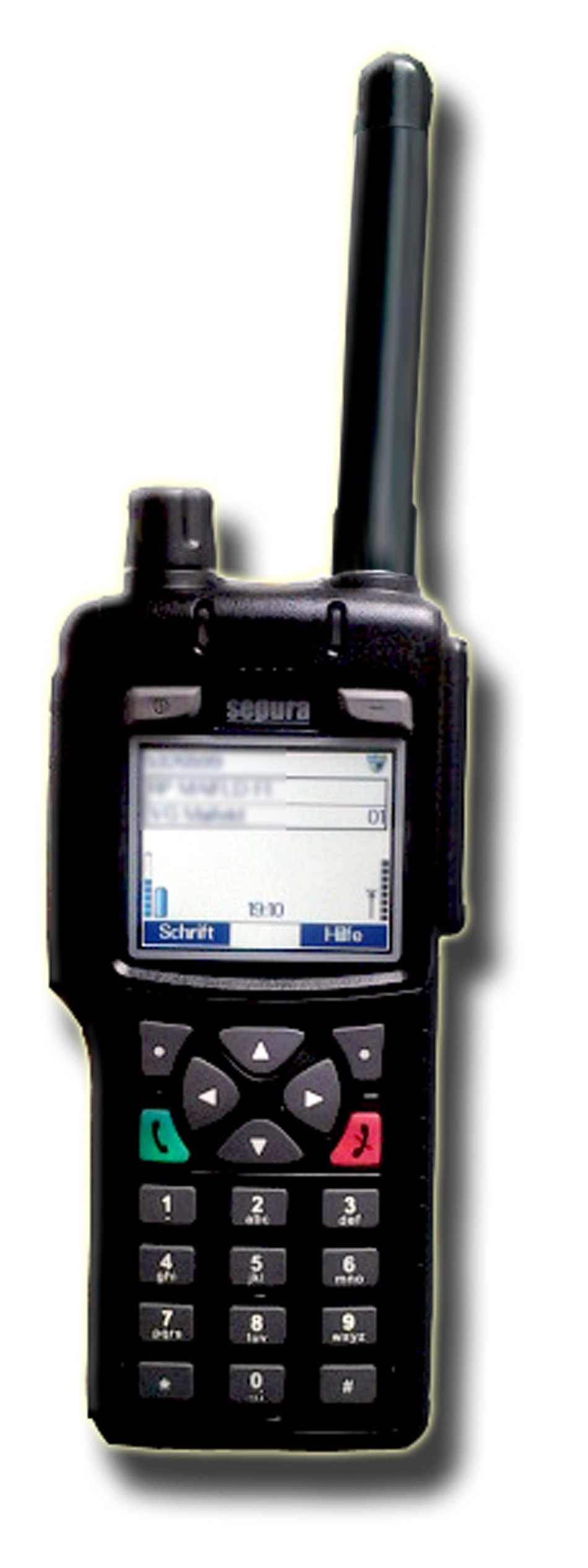 TETRA handheld radio terminal HRT Sepura stP8000